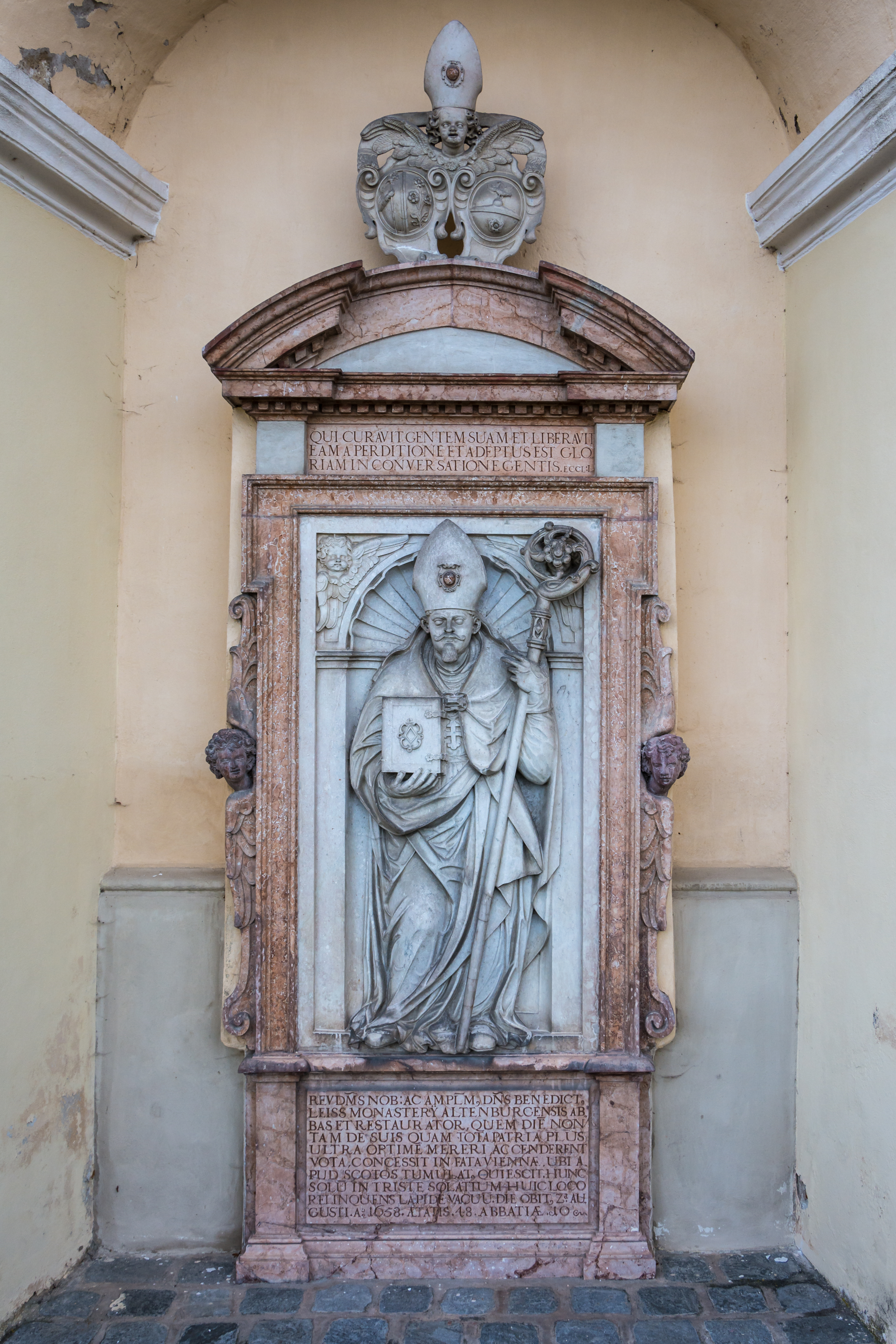 Cenotaph for abbot Benedikt Leiss at Altenburg Abbey, Lower Austria